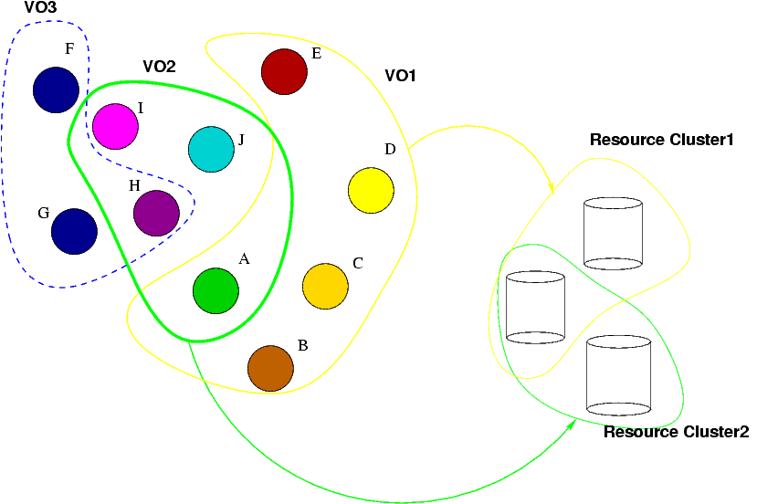 virtual organisation diagram. painted with xfig